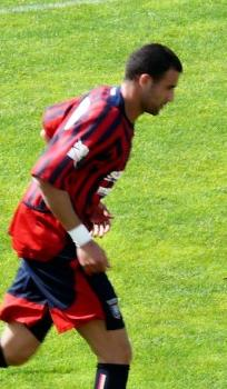 Ghezzal playing for Crotone